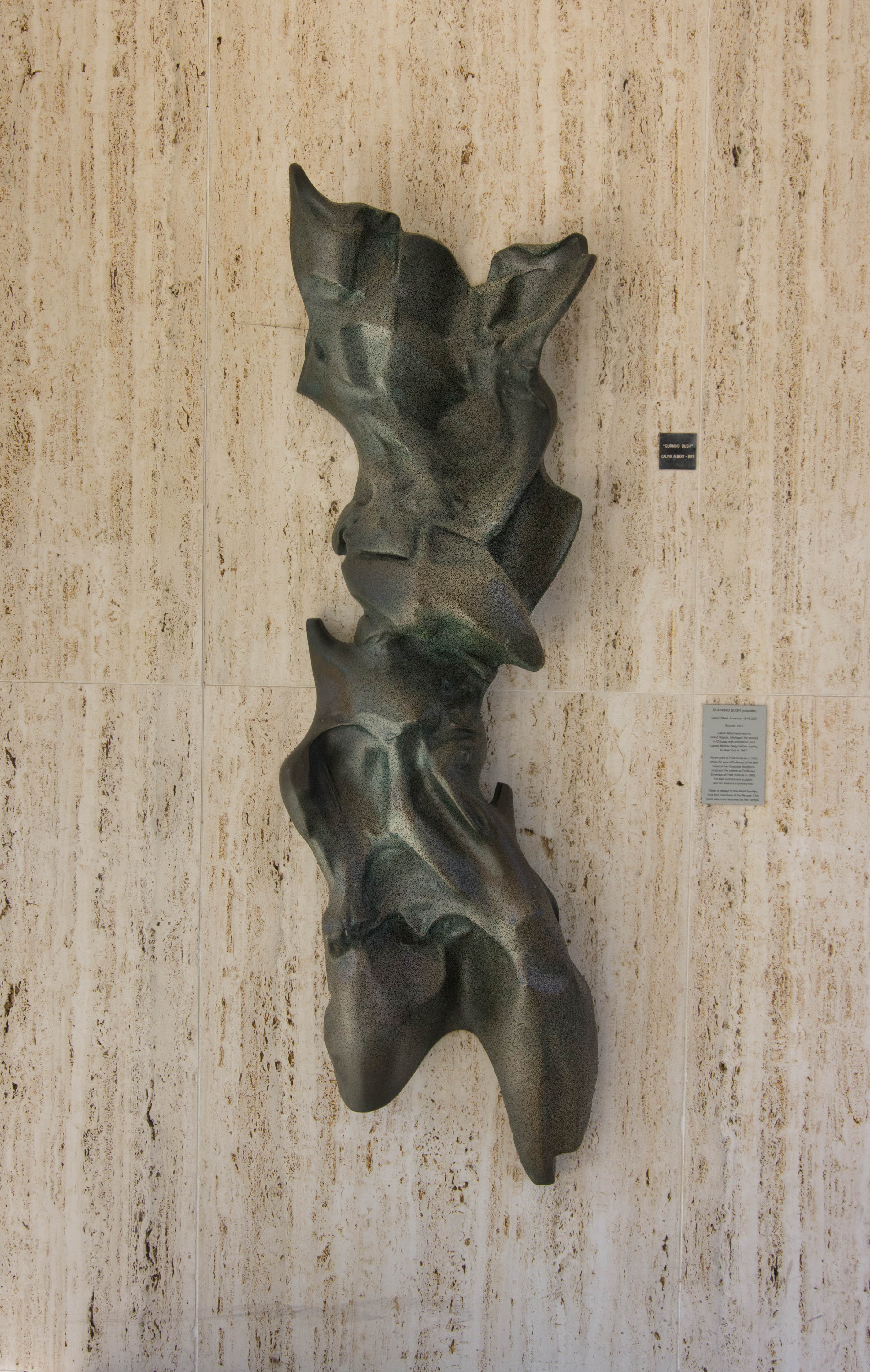 Temple Emanuel (Grand Rapids, Michigan)